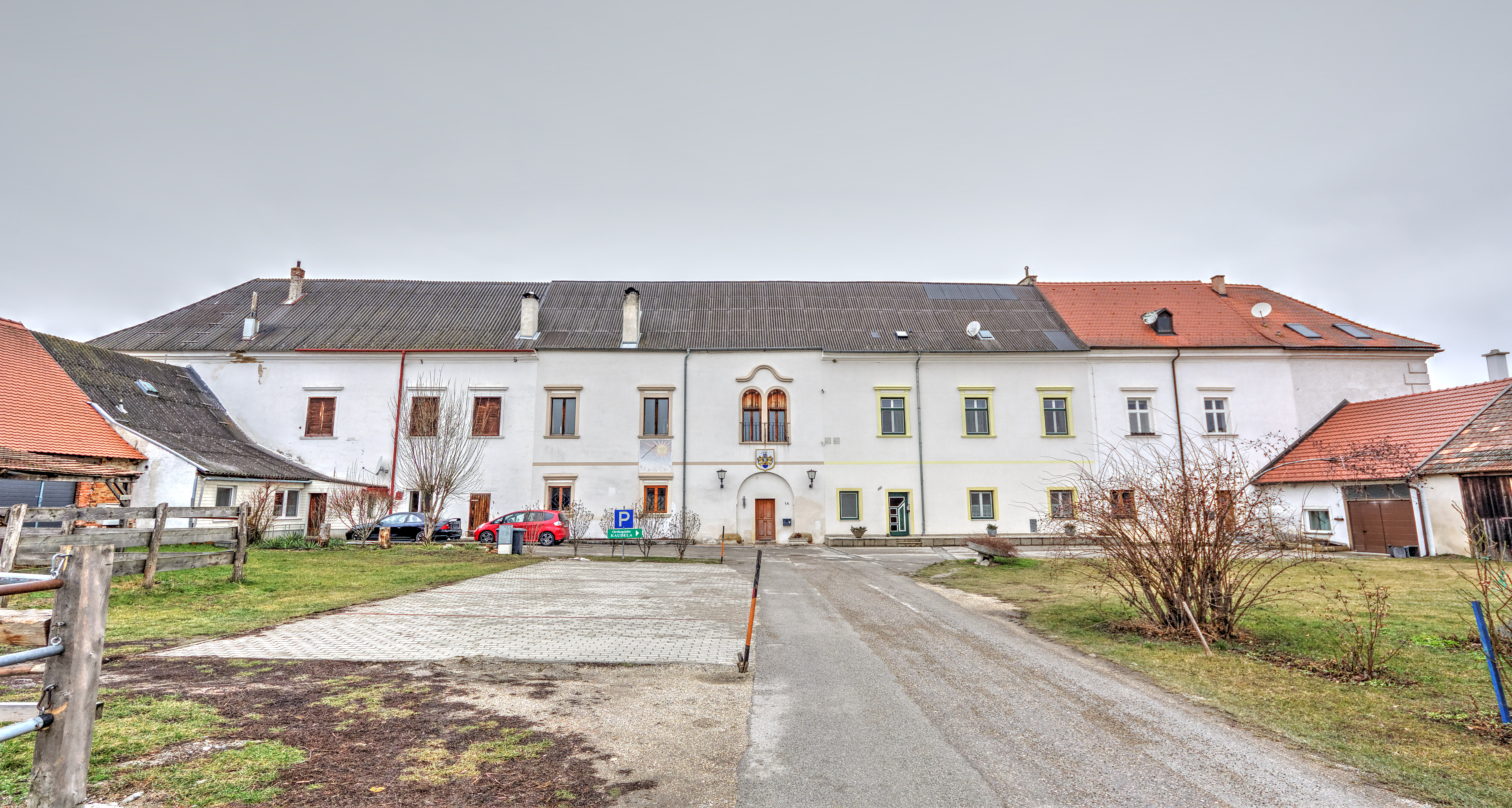 Palace at Unterstinkenbrunn, Lower Austria, Austria